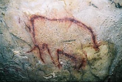 Parietal art. Mammoth, cave in Arcy-sur-Cure